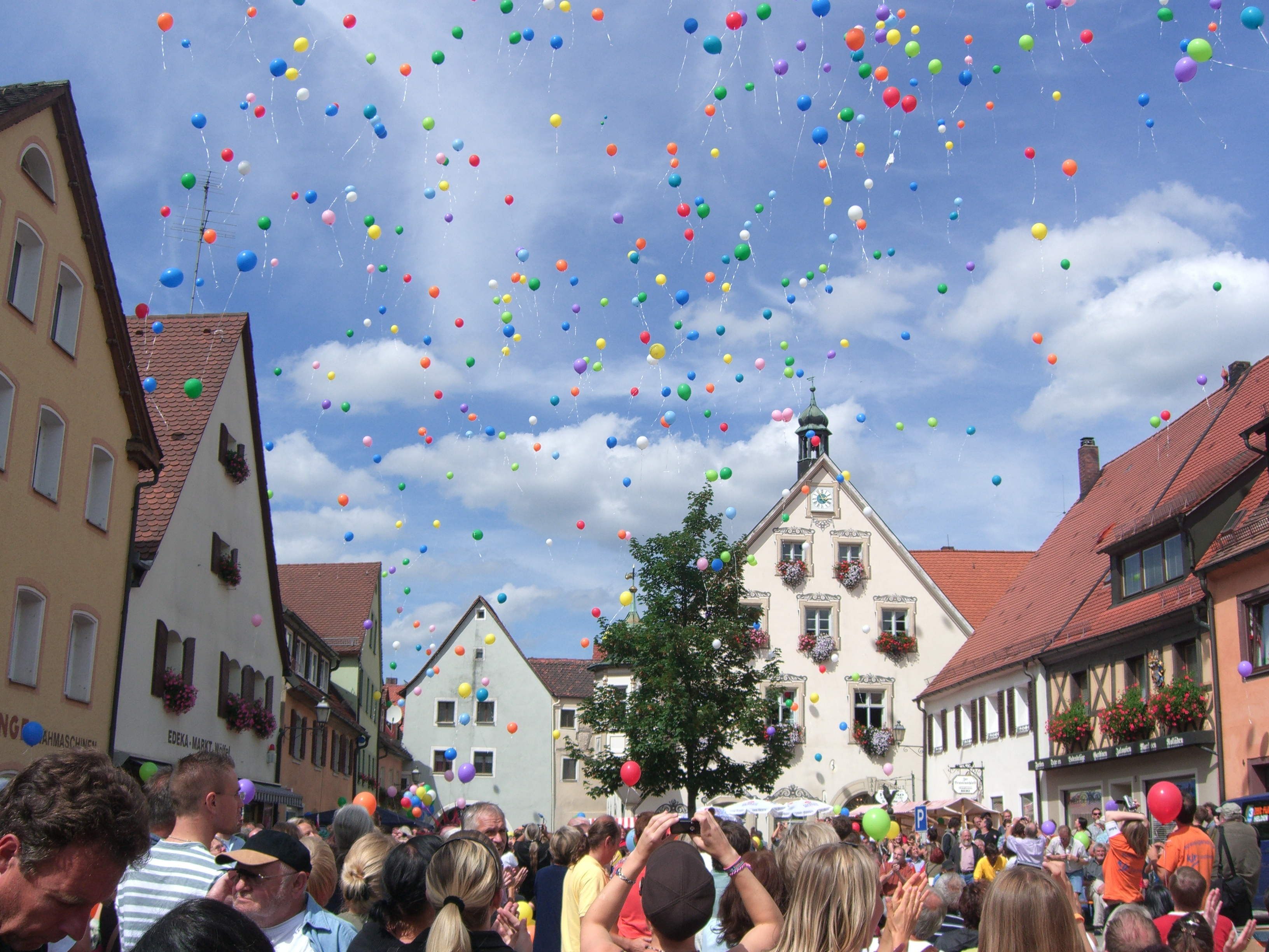 Flying colored balloons at the anti nazi demonstration "Gräfenberg ist bunt" (Gräfenberg is colorful) at the market place of Gräfenberg in Upper Franconia (Bavaria, Germany) on 18. August 2007 at the synchronous start at 15 o'clock with the demonstration "Tag der Demokratie" (day of democracy) in the (as well upper franconian) town of Wunsiedel taking place at the same time.